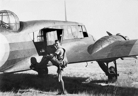 Kojarina, near Geraldton, Western Australia. Informal portrait of 415152 Leading Aircraftman (LAC) Ray Kelly about to board an Avro Anson of Y Flight at 4 Service Flying Training School (4SFTS). LAC Kelly spent four months at the school, after graduating from 9 Elementary Flying Training School at nearby Cunderdin. LAC Kelly's logbook records that the month of March 1942 was spent practising formation flying, bombing, strafing and, on the final day of the month, performing his first night-time navigation flight. LAC Kelly underwent further training at the General Reconnaissance Schools (GRS) at Laverton and Cressy, Vic, from April to July 1942, and at 1 Operational Training Unit (1OTU), flying Hudsons until late October 1942. He was later was posted to 6 (Hudson) Squadron RAAF at Port Moresby on 28 October and by 21 November was flying supply drops to the Buna battlefield.